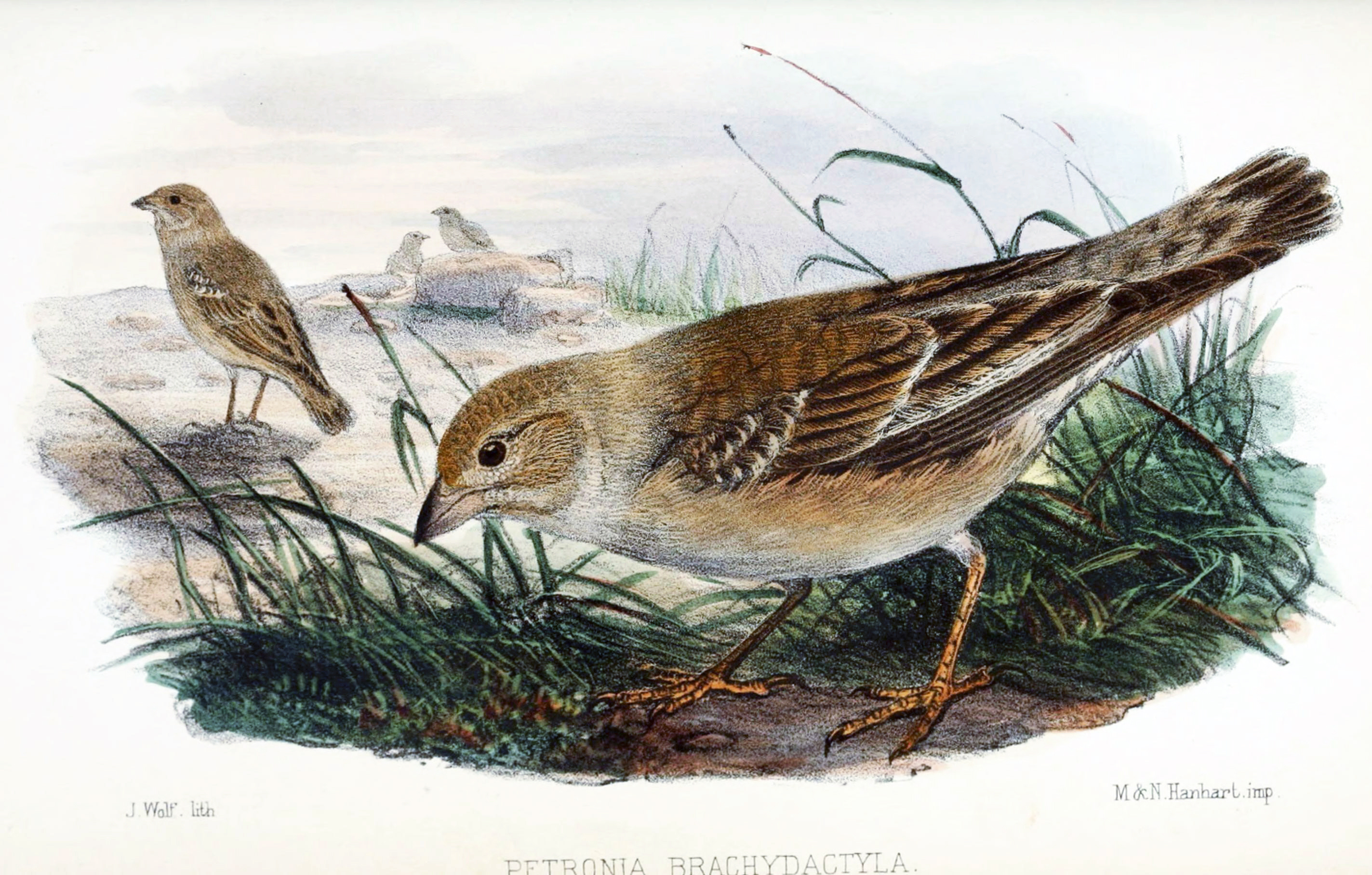 « Petronia brachydactyla » = Carpospiza brachydactyla (Pale Rockfinch)